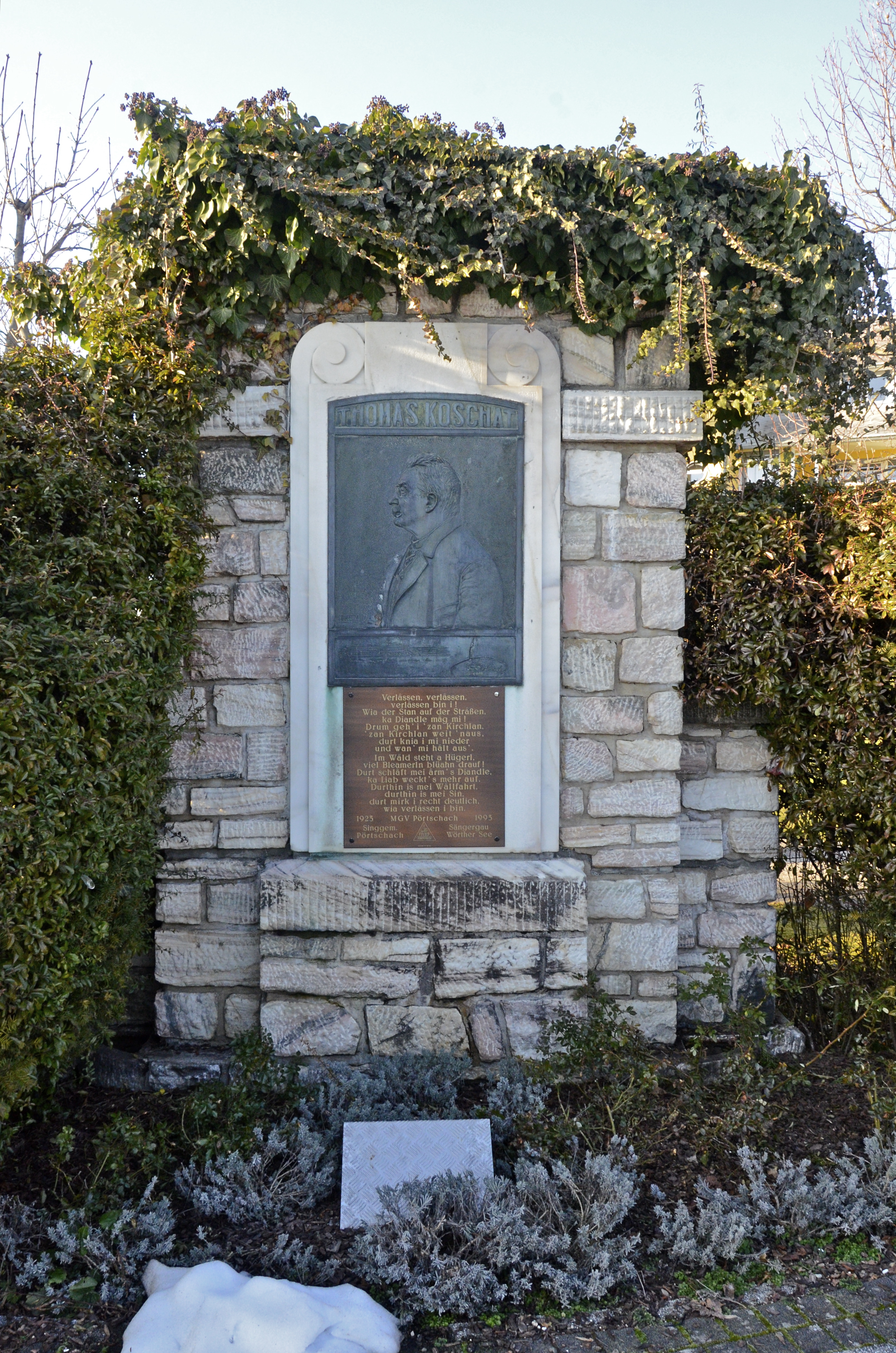 Thomas Koschat monument on the Werzer Esplanade, municipality Poertschach on the Lake Woerth, district Klagenfurt Land, Carinthia, Austria, EU